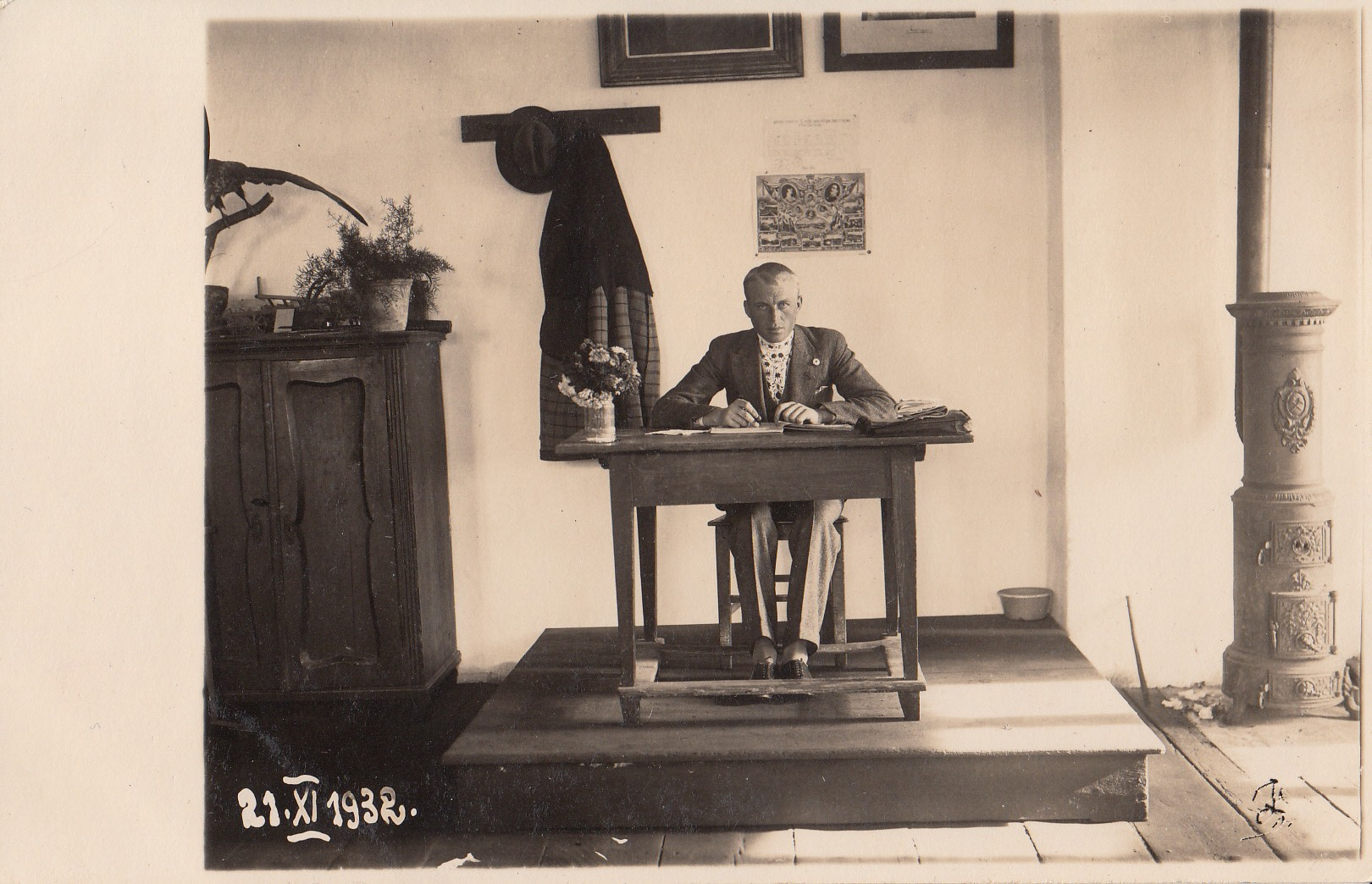 Teacher Jozef Šiffel in his classroom, Padina, 1932. Inventory number 1391. Srpski (latinica): Učitelj Jozef Šifel u učionici, Padina, 1932. Inventarski broj 1391.